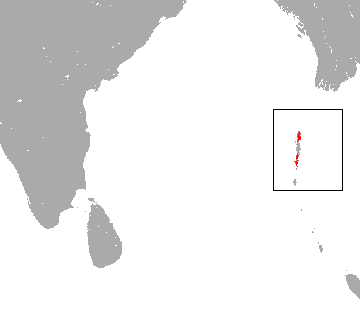 Andaman Horseshoe Bat (Rhinolophus cognatus) range